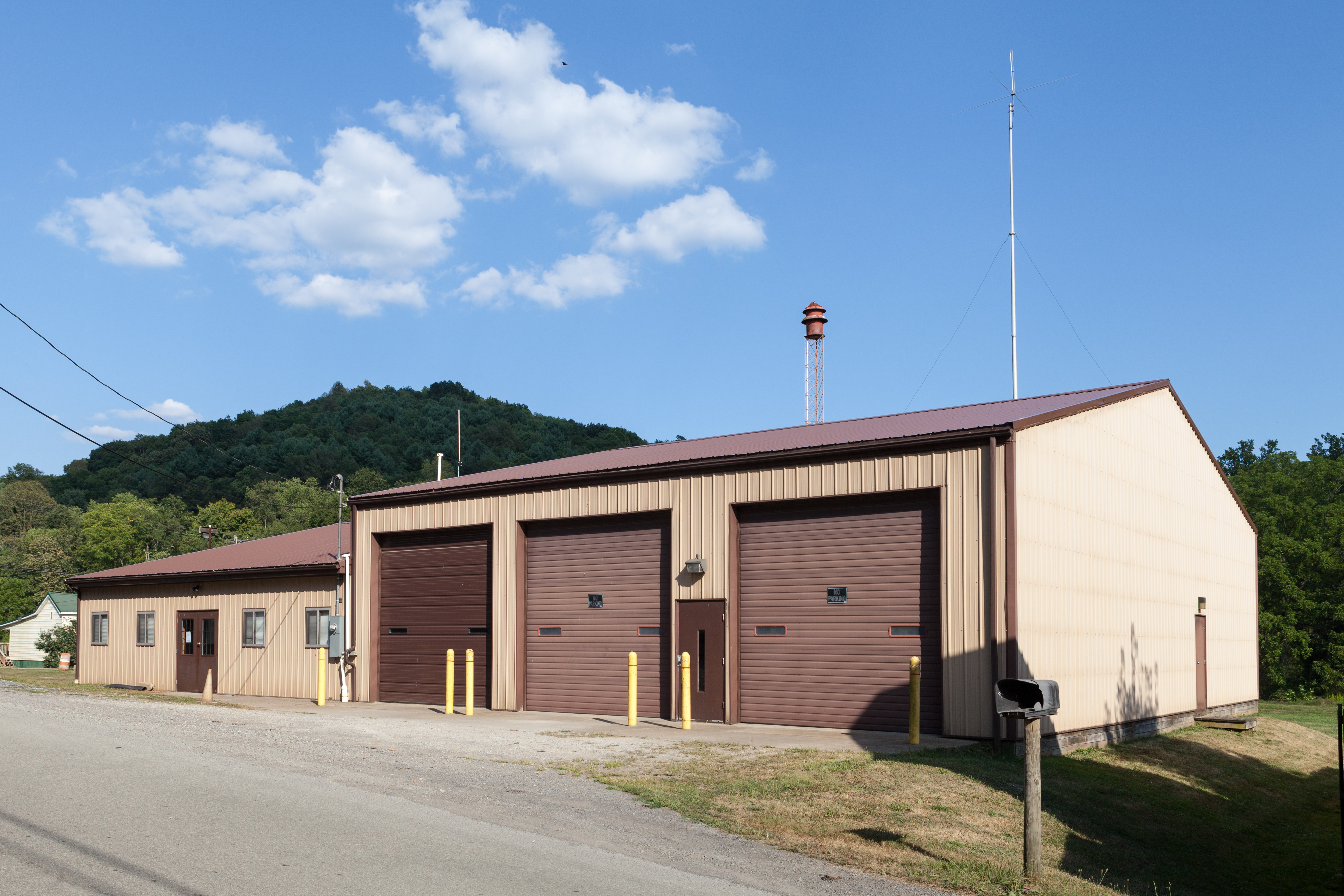 New Freeport Volunteer Fire Company, located at 111 Main Street in in Freeport Township, Greene County, Pennsylvania.